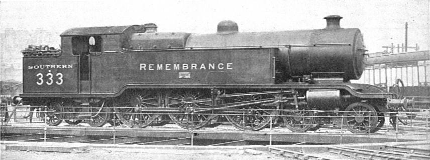 4-6-4 Express Tank Locomotive "Remembrance" Central Division, Southern Railway